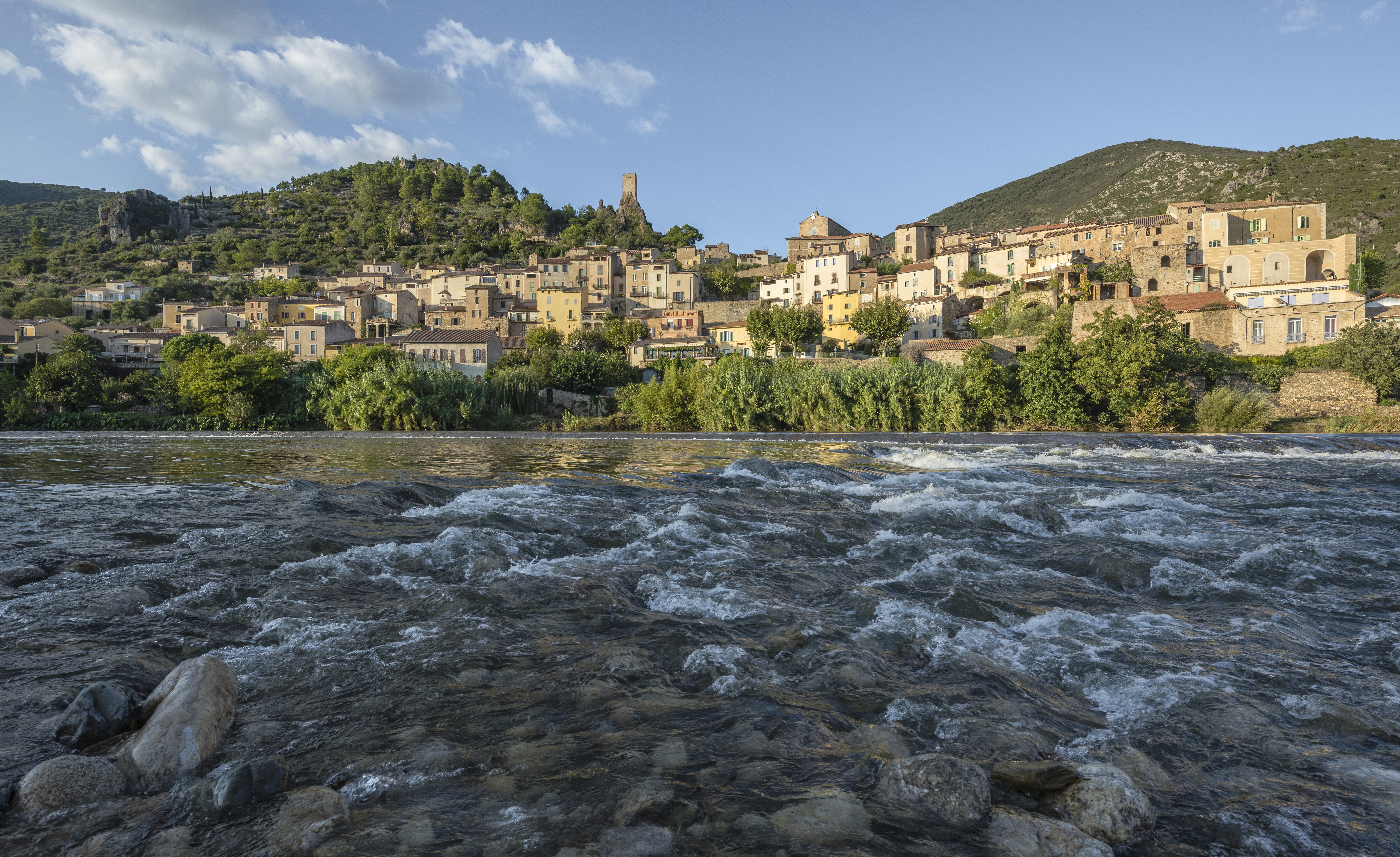 The Orb River and the village of Roquebrun, Hérault, France. Haut-Languedoc Regional Natural Park.